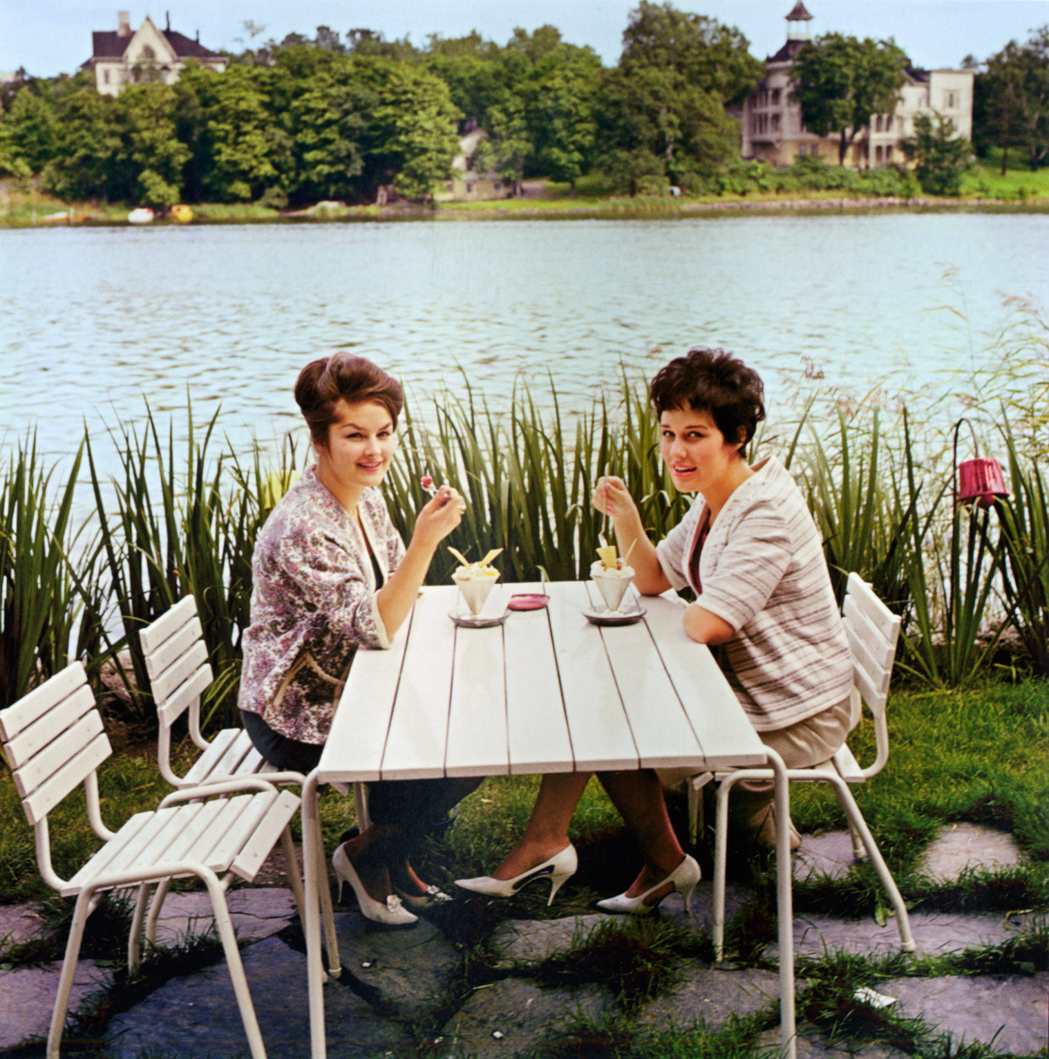 Publicity photograph of the Finnish singers Laila Kinnunen (1930–2000) and Maria Lessig at Töölönlahti café.